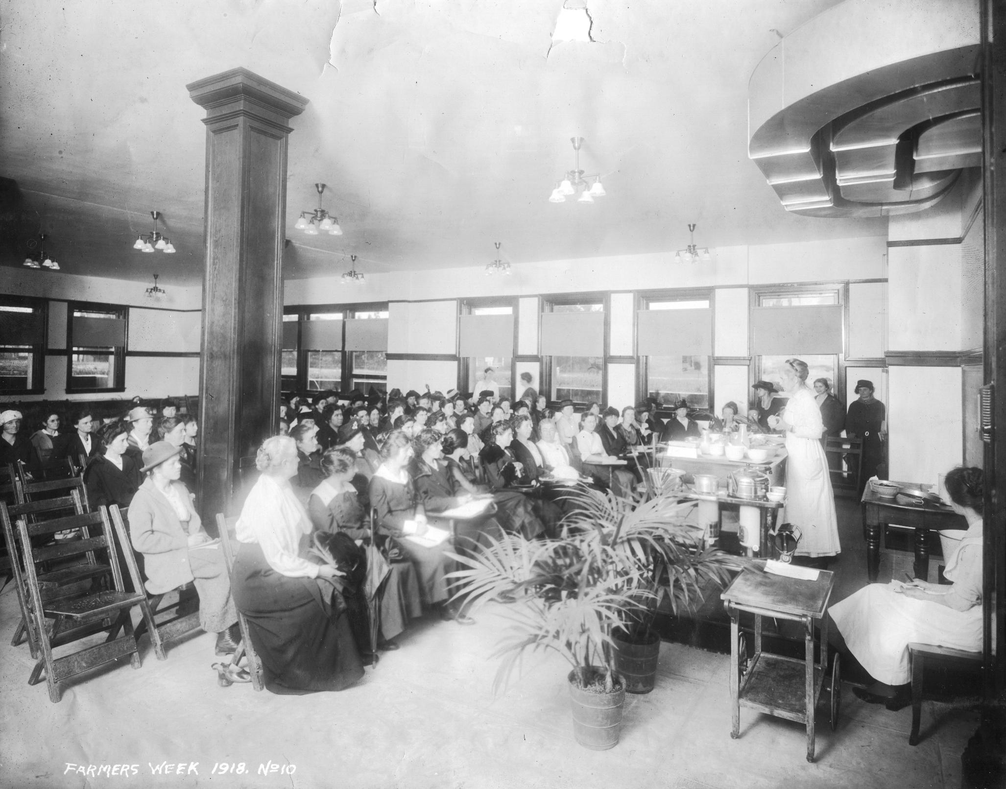 Original Collection: Harriet's Collection Item Number: HC0975 Item Description: Anna Barrows of Columbia University demonstrating cooking techniques at the 1918 Farmers Week at Oregon Agricultural College. You can find this image by searching for the item number by clicking here. Want more? You can find more digital resources online. We're happy for you to share this digital image within the spirit of The Commons; however, certain restrictions on high quality reproductions of the original physical version may apply. To read more about what “no known restrictions” means, please visit the Special Collections & Archives website, or contact staff at the OSU Special Collections & Archives Research Center for details.